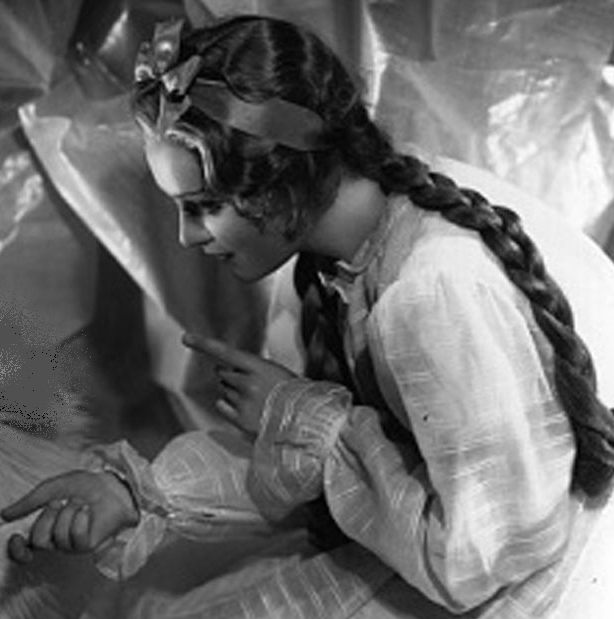 Publicity photo of Anna Sten for Argentinean Magazine. (Printed in USA)